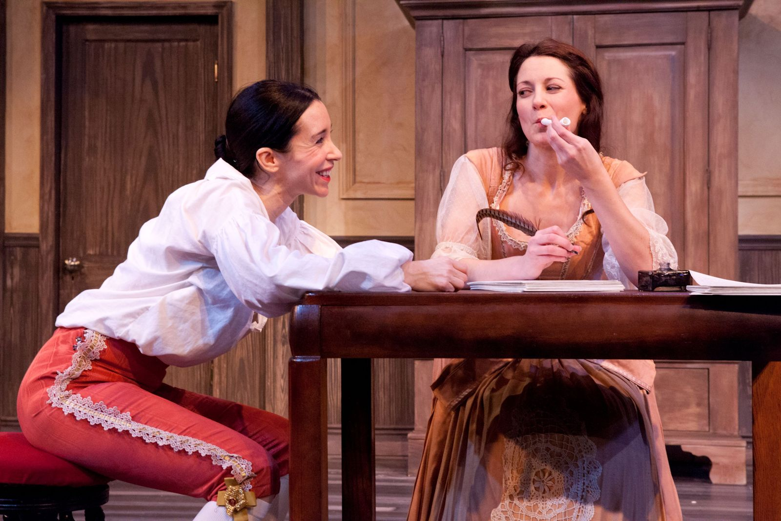 Playwright: Liz Duffy Adams